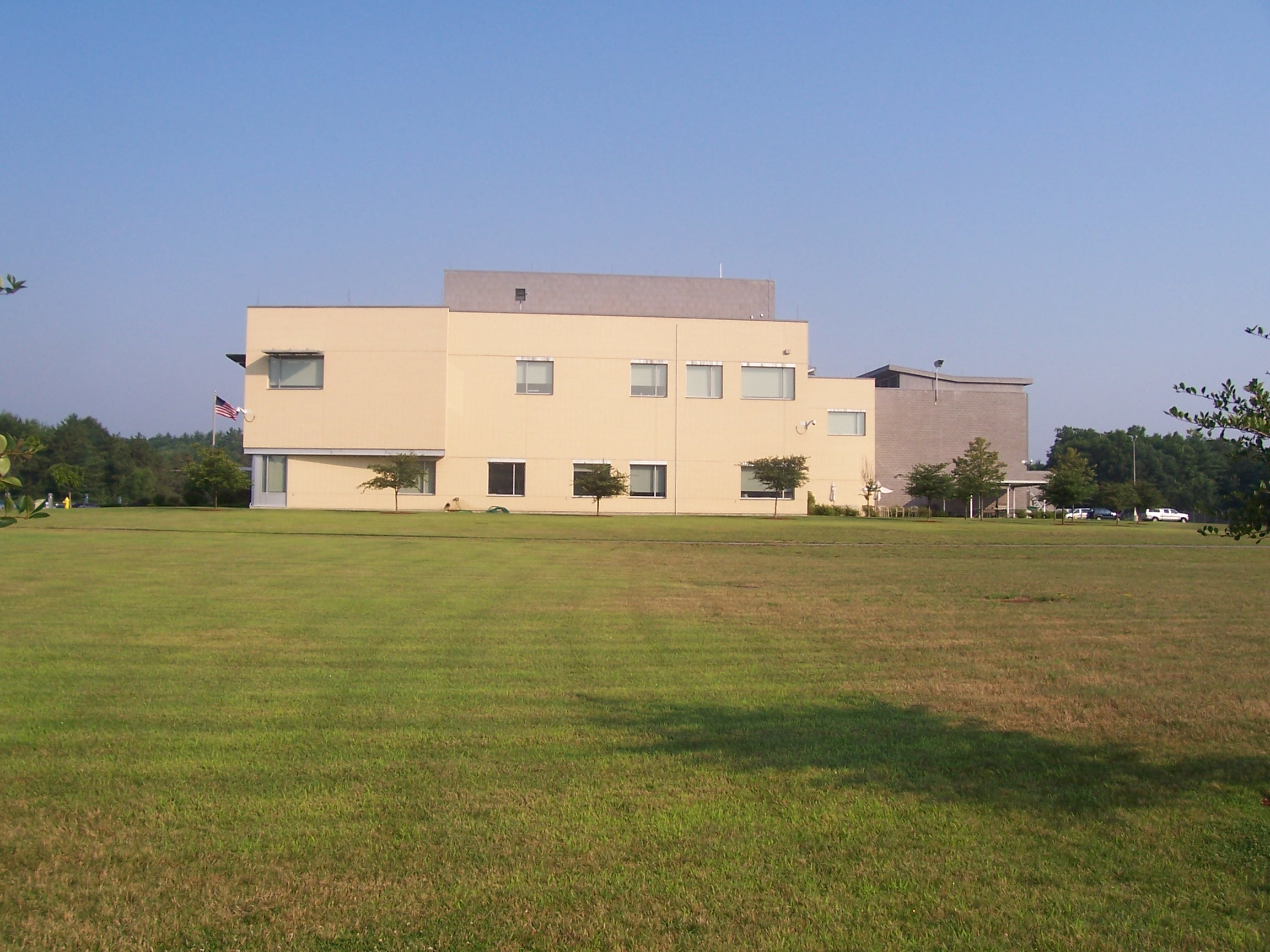 The Boston Consolidated TRACON from the outside. Taken July 15, 2007.